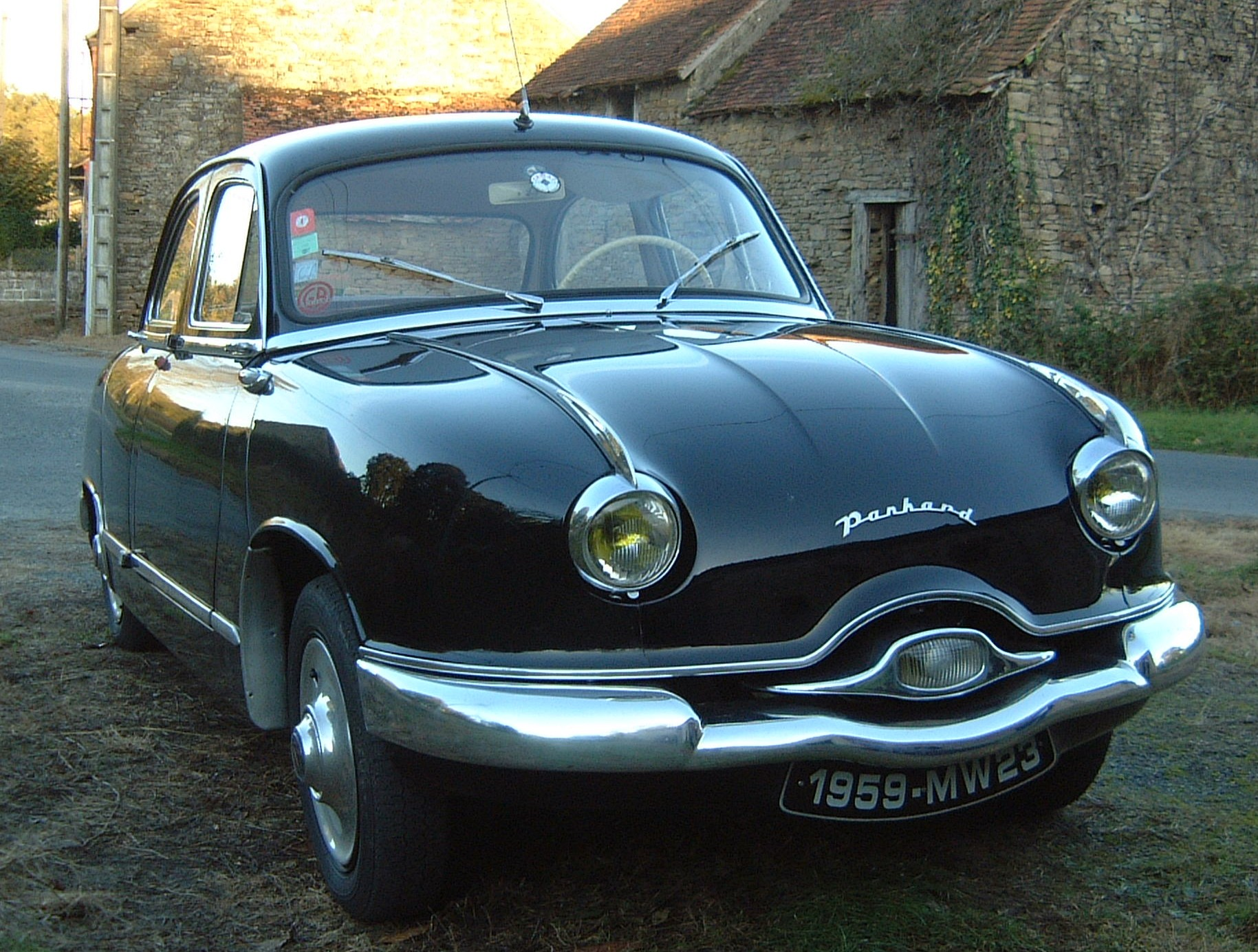 My father's car